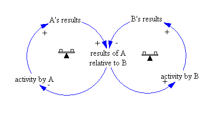 Causal loop diagram - system archetype "Escalation"